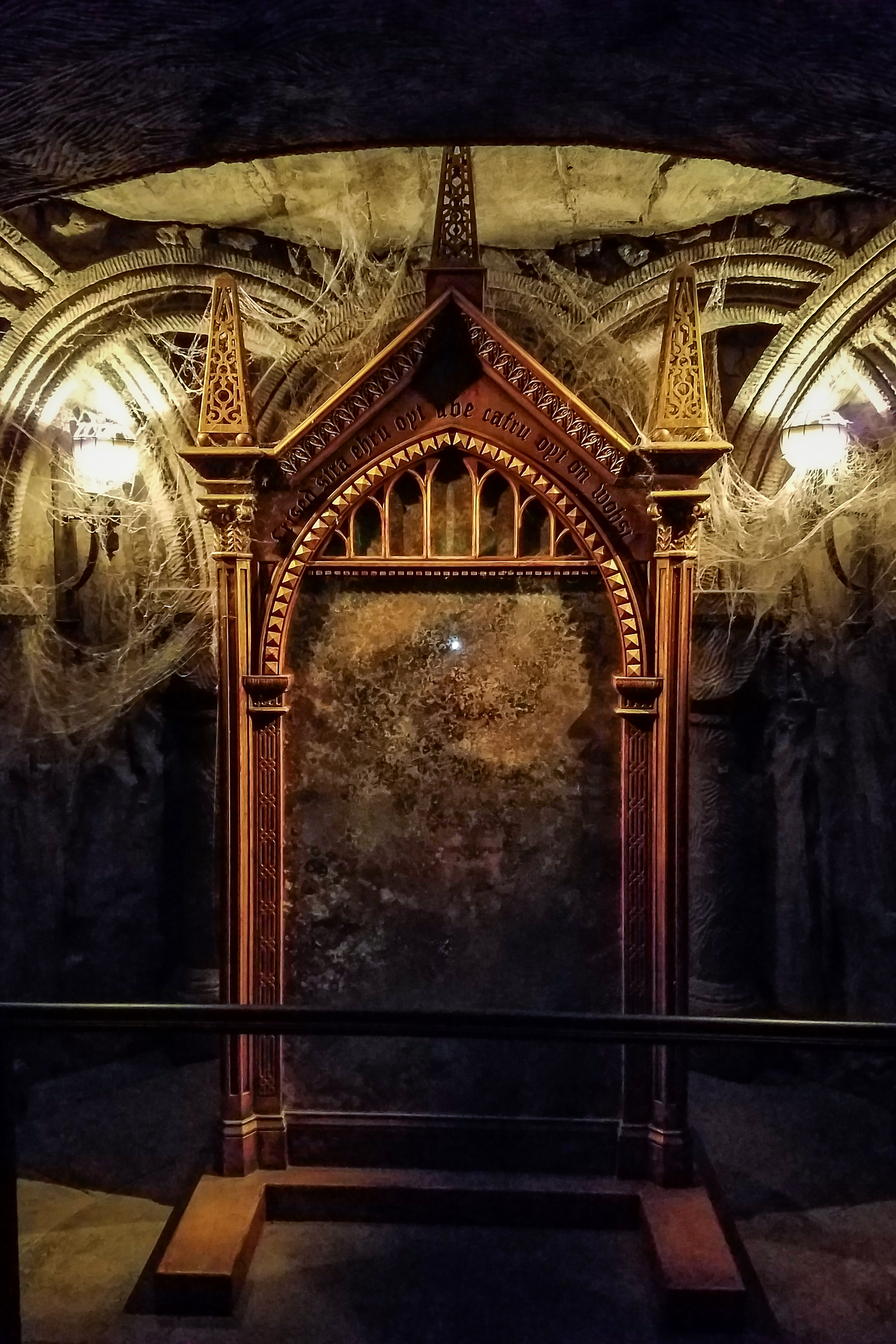 Inside Hogwarts (aka Harry Potter and the Forbidden Journey) in the Wizarding World of Harry Potter at Universal Studios Hollywood.